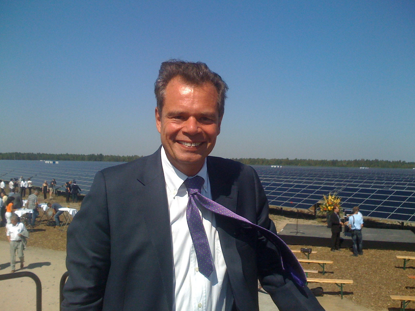 Friedbert Pflüger at the opening ceremony of the "Lieberose" solar park in Turnow-Preilack, Brandenburg, on 20 August 2009.